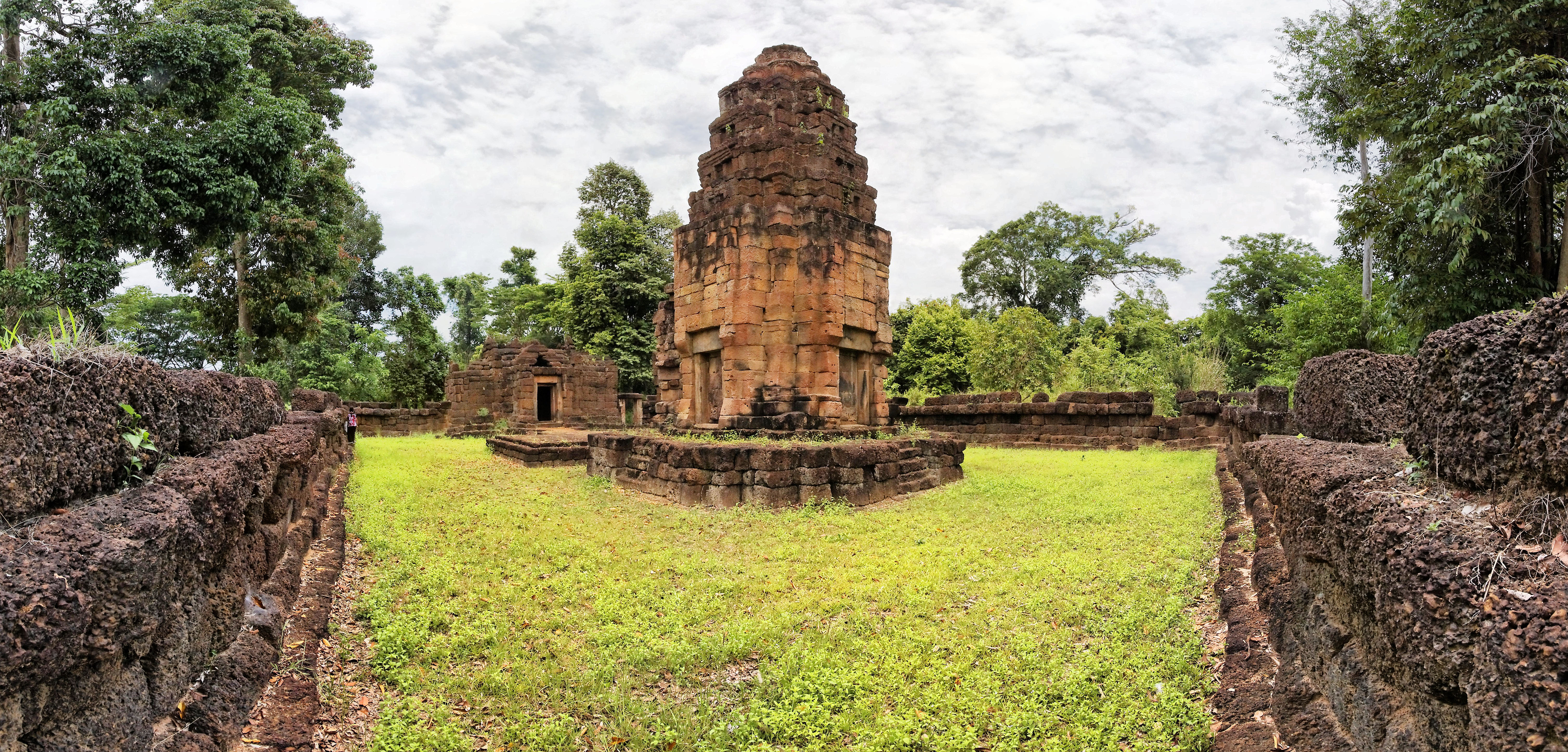 Prasat Ta Muen Toch, Thailand